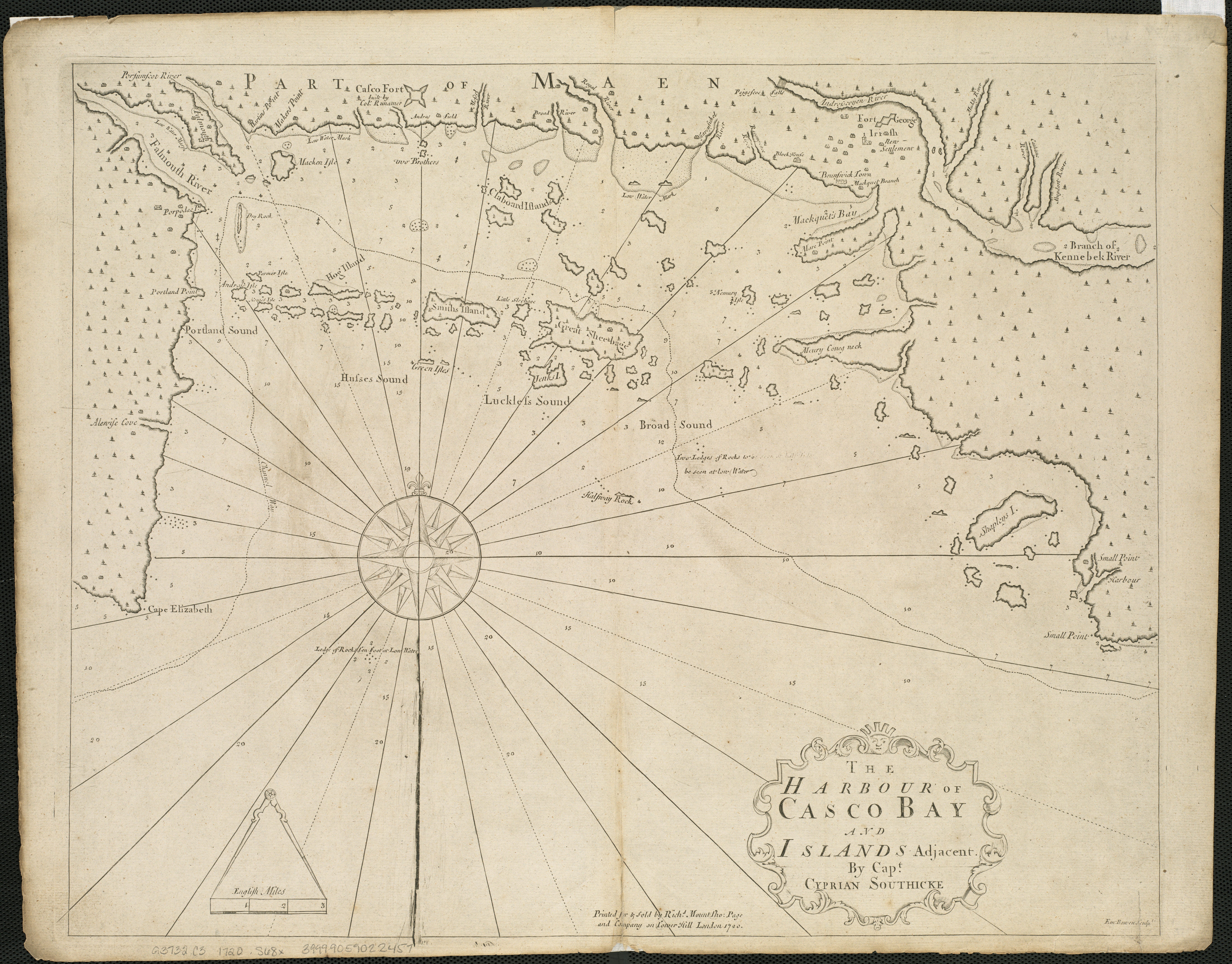 Zoom into this map at . Author: Southack, Cyprian Publisher: Mount, Richd. & Tho. page Date: 1720 Location: Casco Bay (Me.) Dimension 44x54cm Scale: Scale not given Call Number: G3732.C3 1720 .S68x